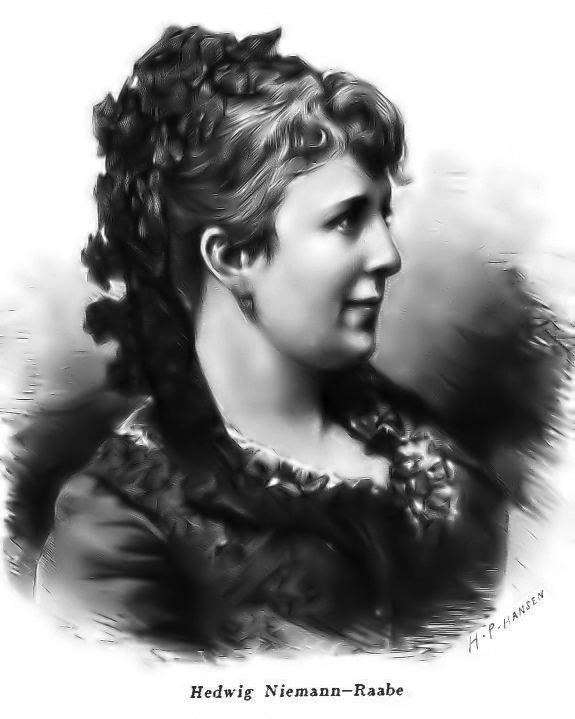 Hedwig Raabe (December 3, 1844 – April 21, 1905), German actress, was born in Magdeburg, and at the age of fourteen was playing in the company of the Thalia theatre, Hamburg.